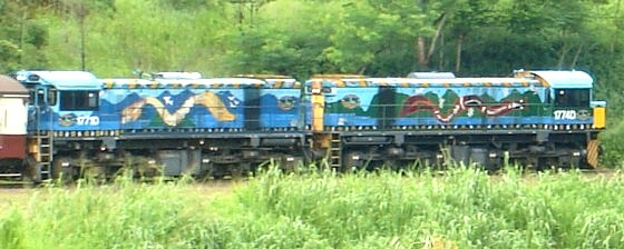 Photo taken of Queensland Rail Engine, painted with a representation of the Djabugay people's ancestral being, Buda-ji